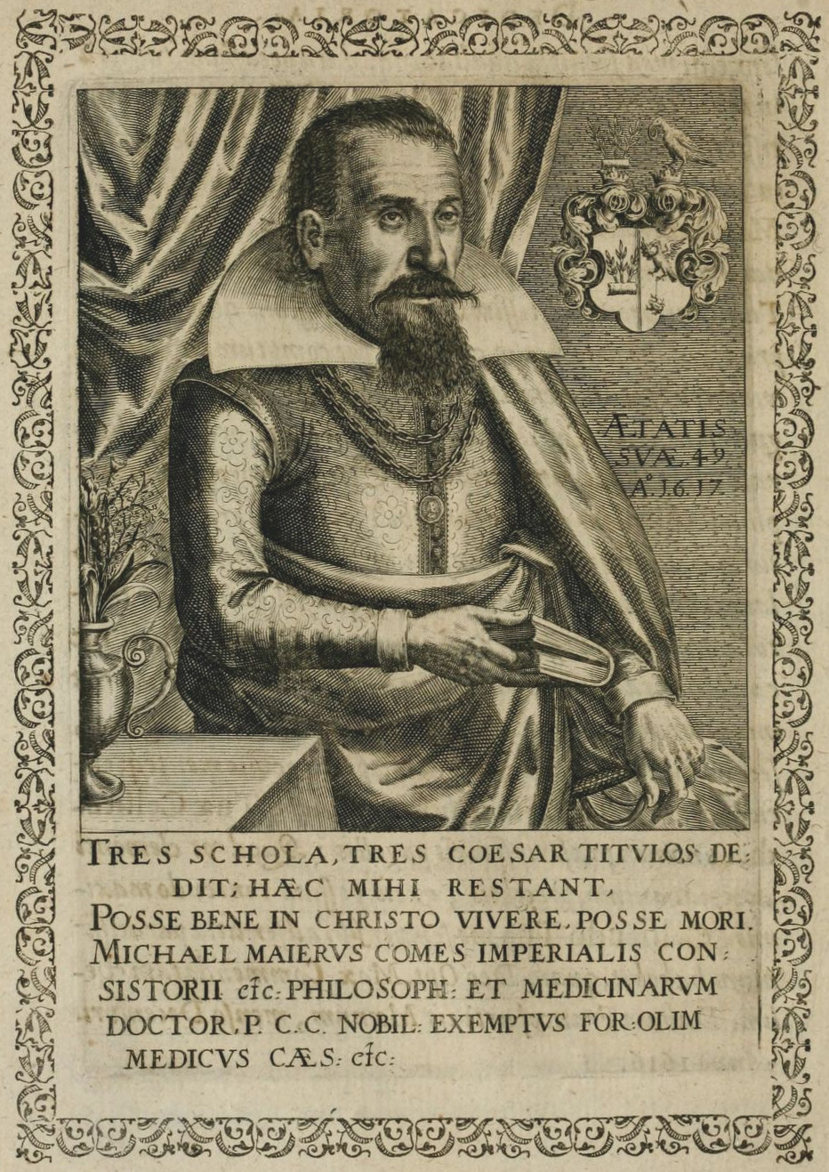 Engraving of Michael Maier on the 12th page of Symbola avreae mensae dvodecim nationvm